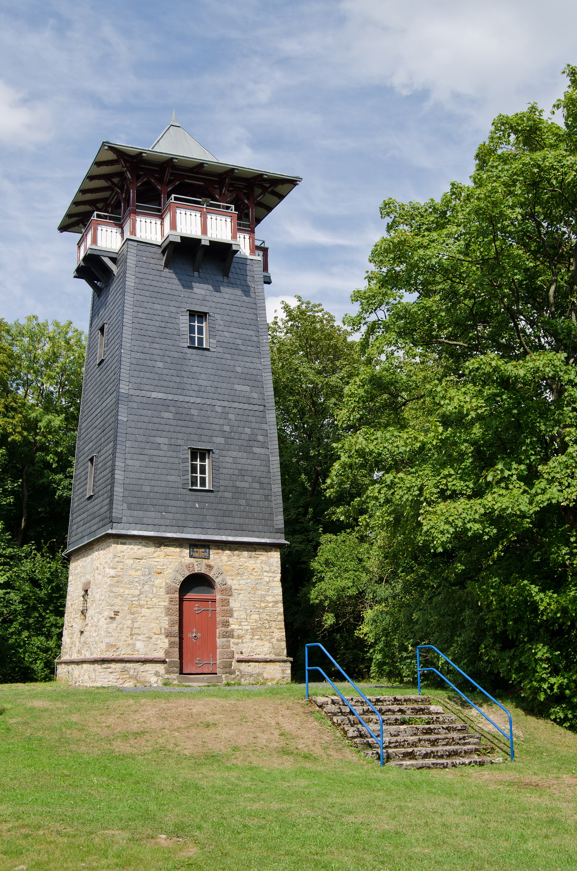 Northeim (Lower Saxony, Germany) – observation tower Wieterturm This is a photograph of an architectural monument.It is on the list of cultural monuments of Northeim This photograph was taken with a Nikon D7000